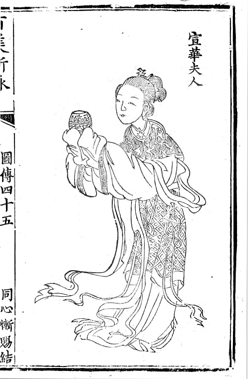 Consort Chen of Emperor Wen, from the 18th century work Hundred Poems of Beautiful Women (Bai Mei Xin Yong Tu Zhuan 百美新詠圖傳) by Yan Xiyuan (颜希源). Woodblock print of drawing by Wang Hui 王翙